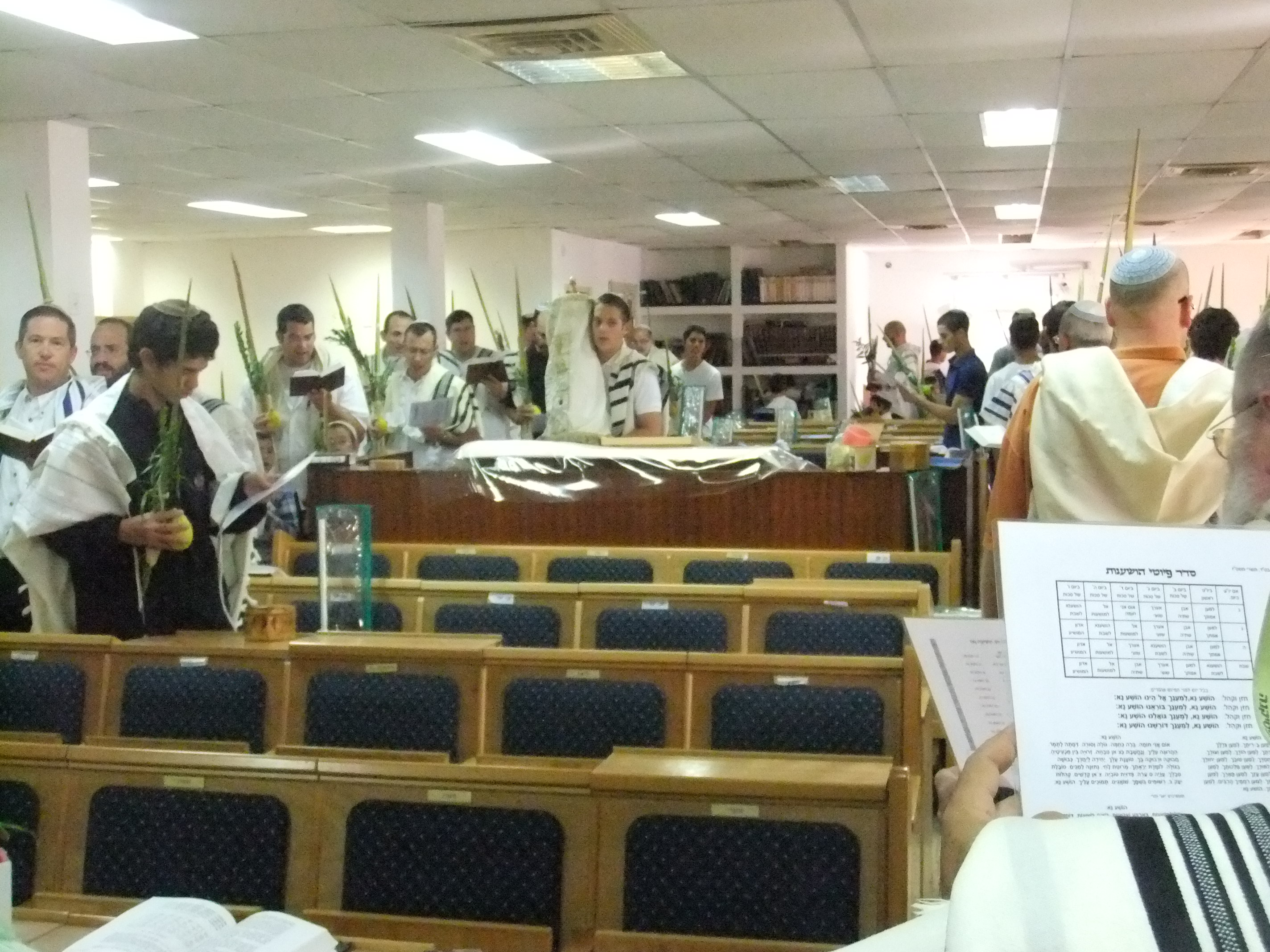 Hoshanot is synagouge in Ofra